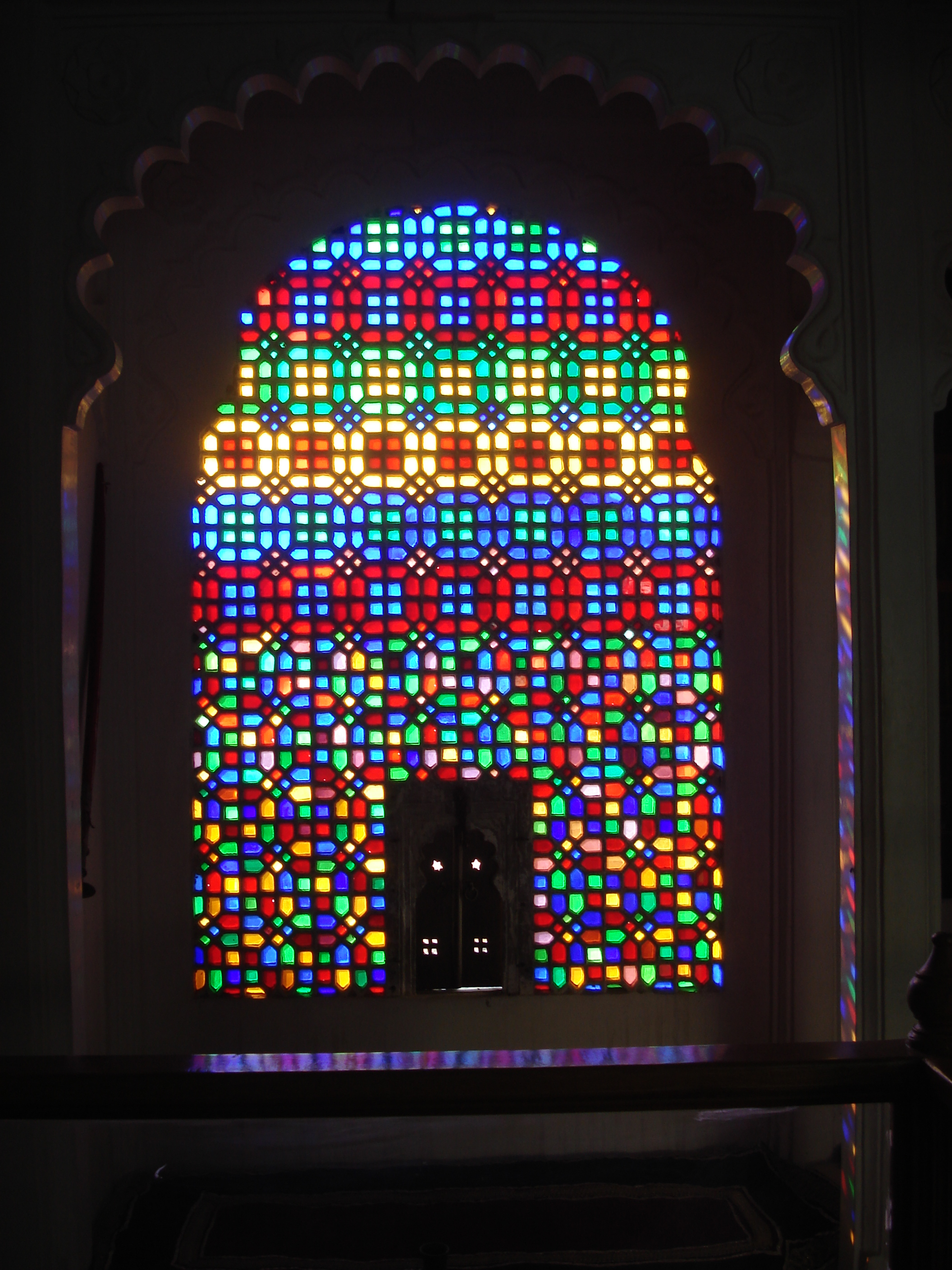 This is a fine example of the exquisite craftsmanship of Rajasthan